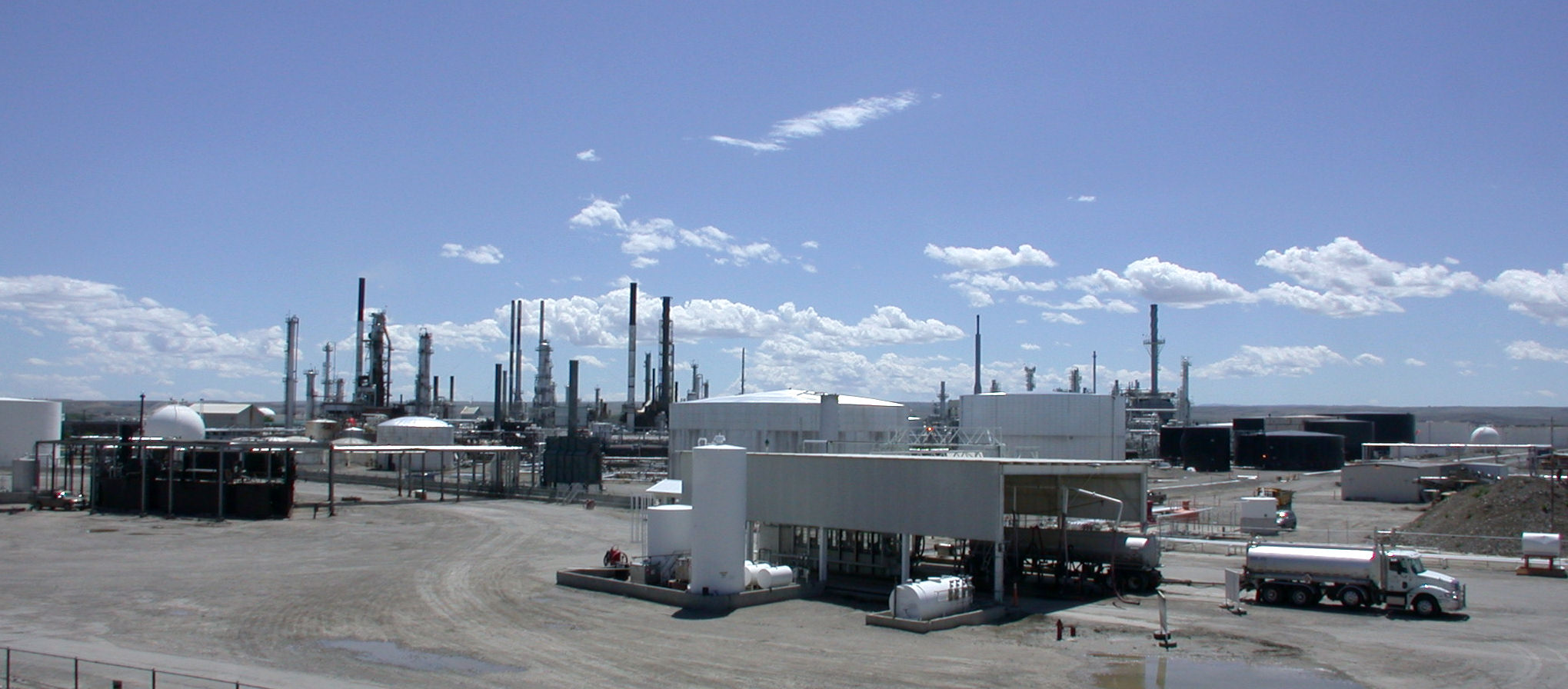 CENEX oil refinery, Billings, Montana